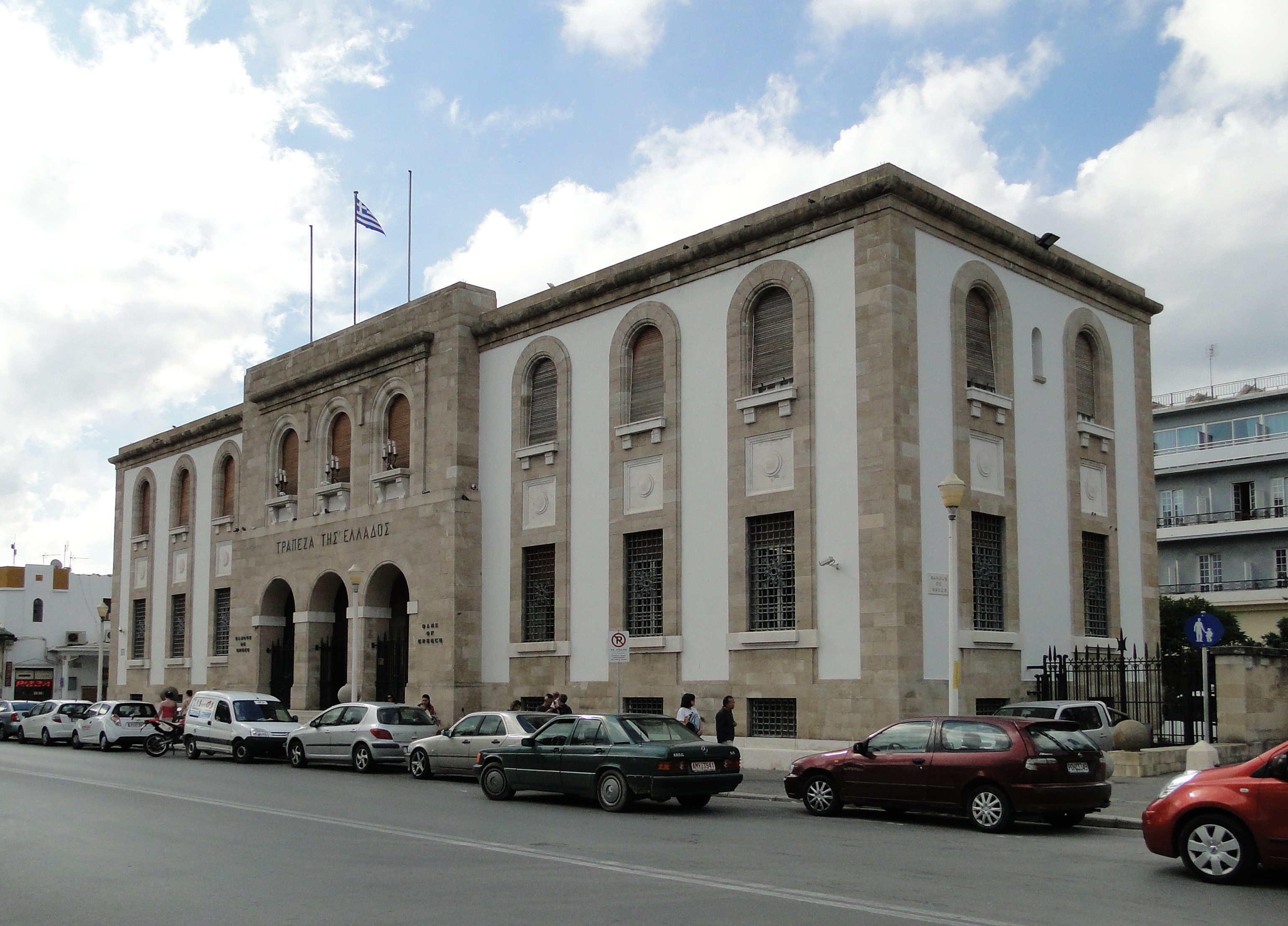 Bank of Greece building in City of Rhodes, Greece